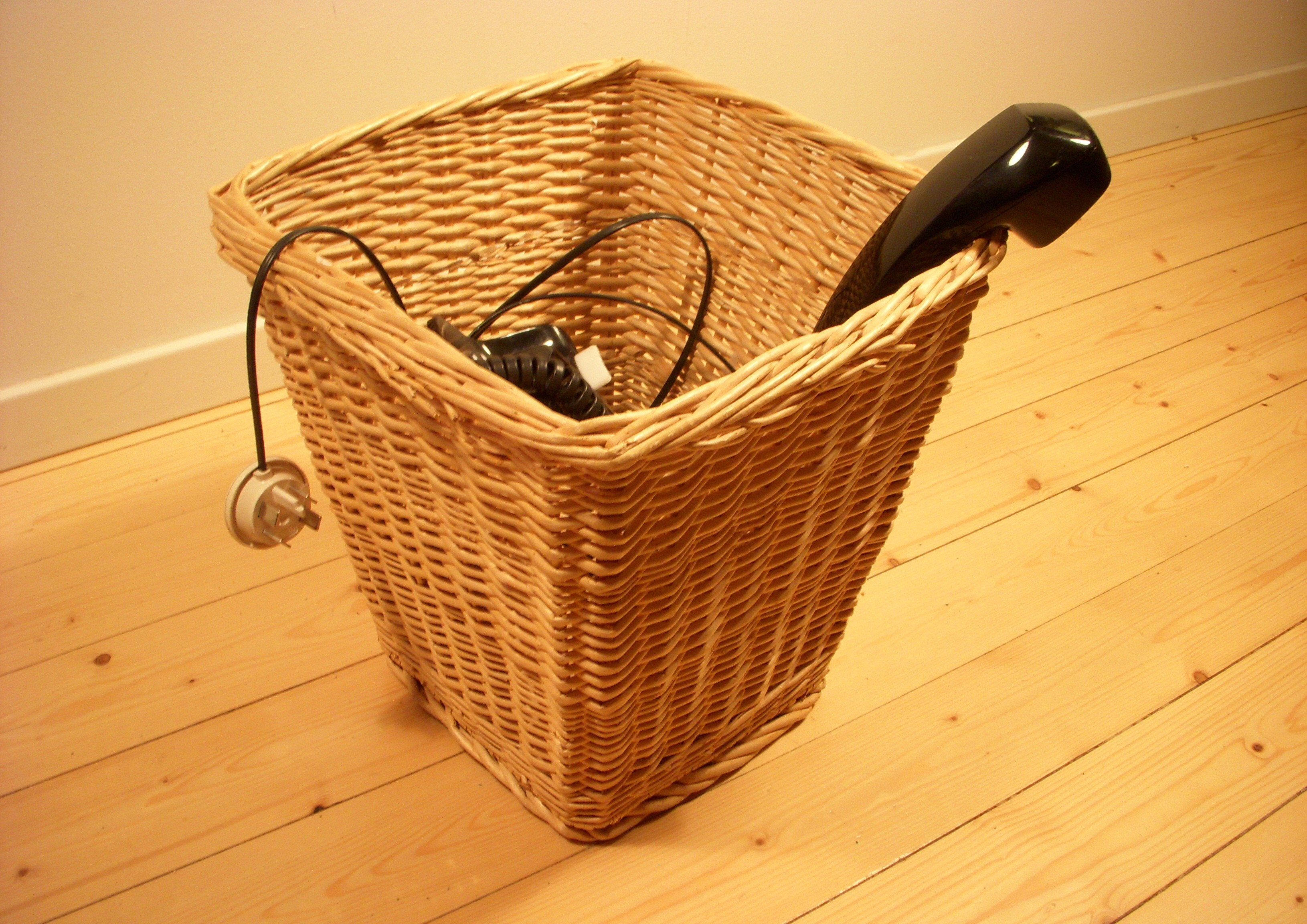 Waste basket with phone